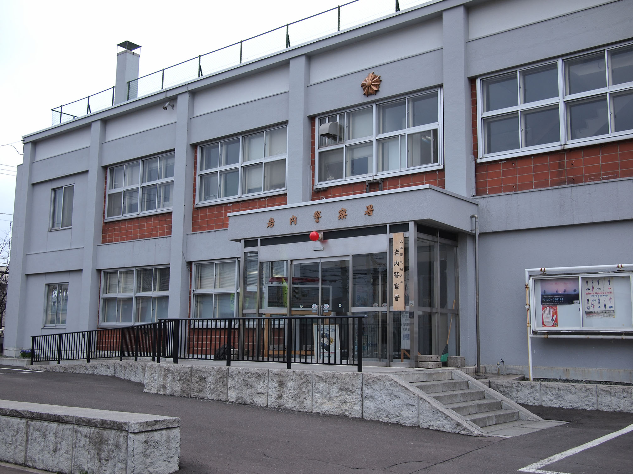 Iwanai police station, Iwanai, Hokkaido, Japan